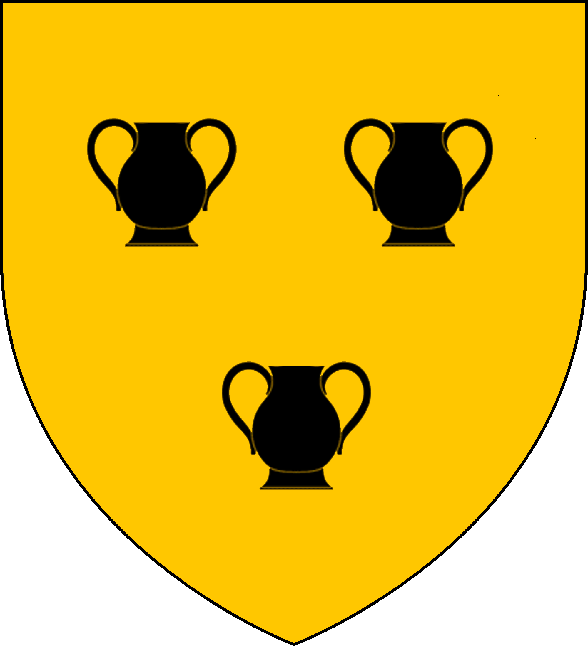 Escudo de armas de la familia Pignatelli (Stemma dei Pignatelli)